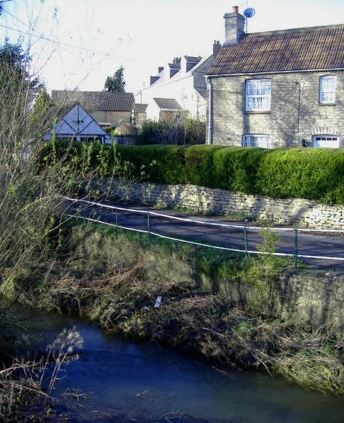 Mill Lane, Corston Runs alongside the Gauze Brook.